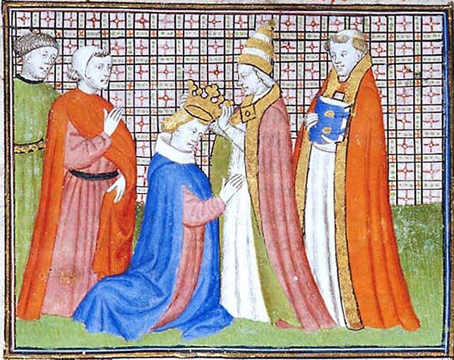 Antipope Nicholas V crownes Louis IV Bavarian 15th May 1328